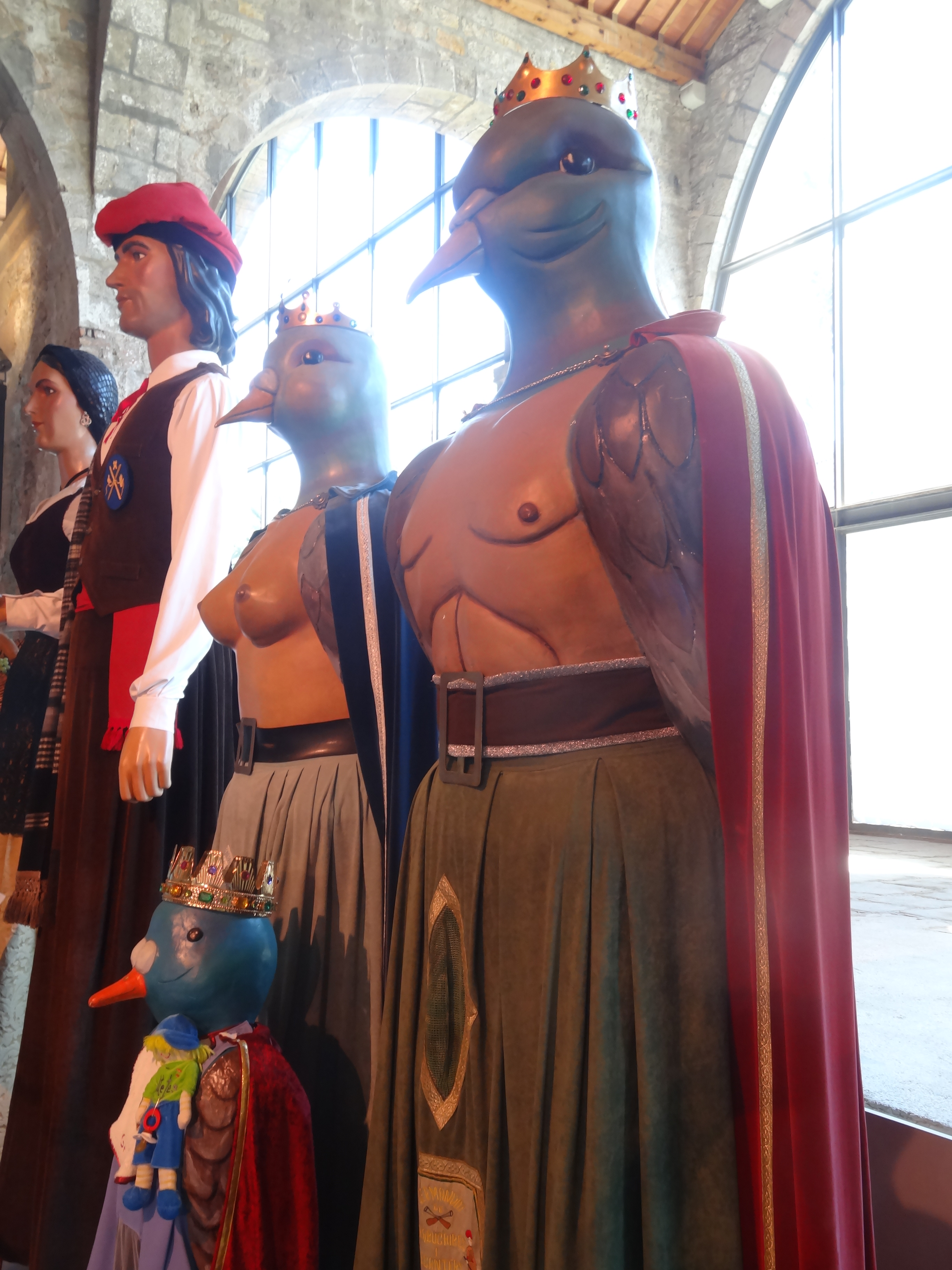 Exhibition of Giants at the Museu Marítim, Barcelona, 2013.